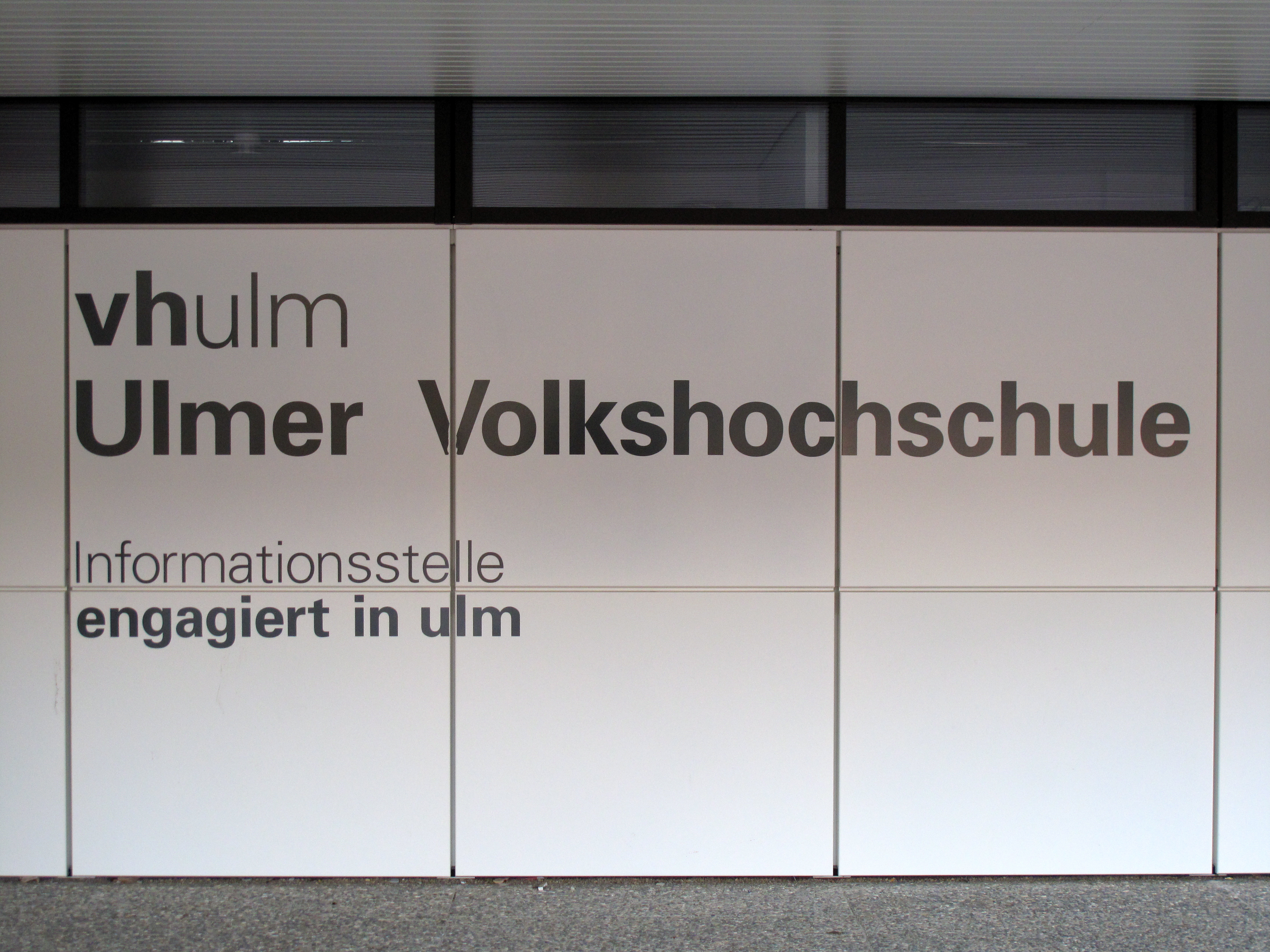 The logo of the Ulmer Volkshochschule (adult education centre of Ulm) at the EinsteinHaus in the city centre of Ulm.